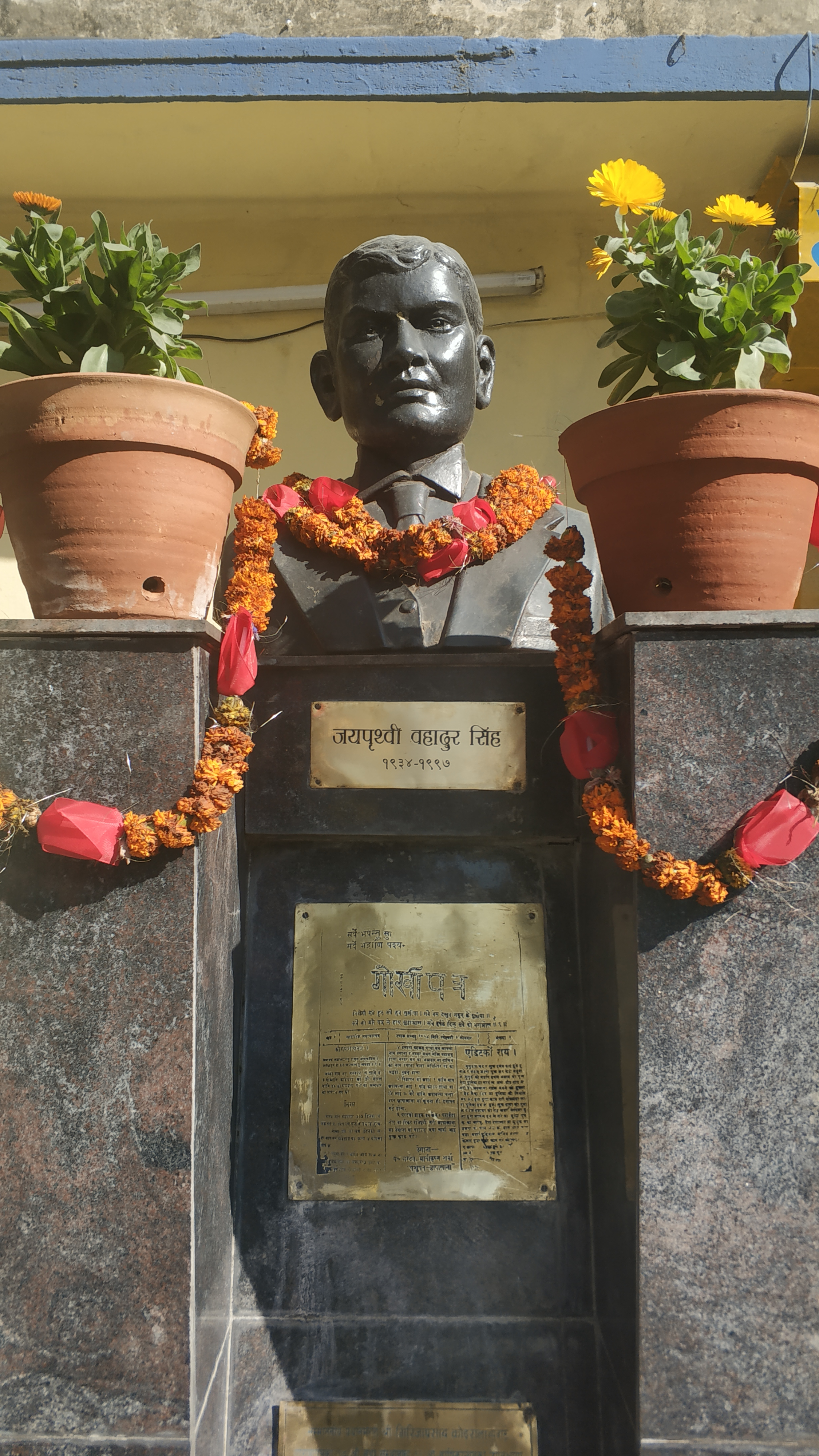 Statue of Jaya Prithvi Bahadur Singh (21 August 1877 – 15 October 1940) in front of Gorkhapatra corporation Newroad, Kathmandu.